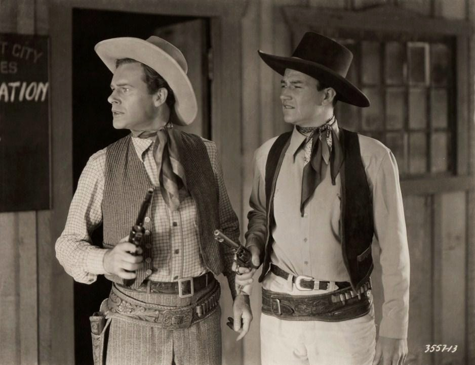 Lane Chandler (left) & John Wayne in Winds of the Wasteland - publicity still (cropped : see source)